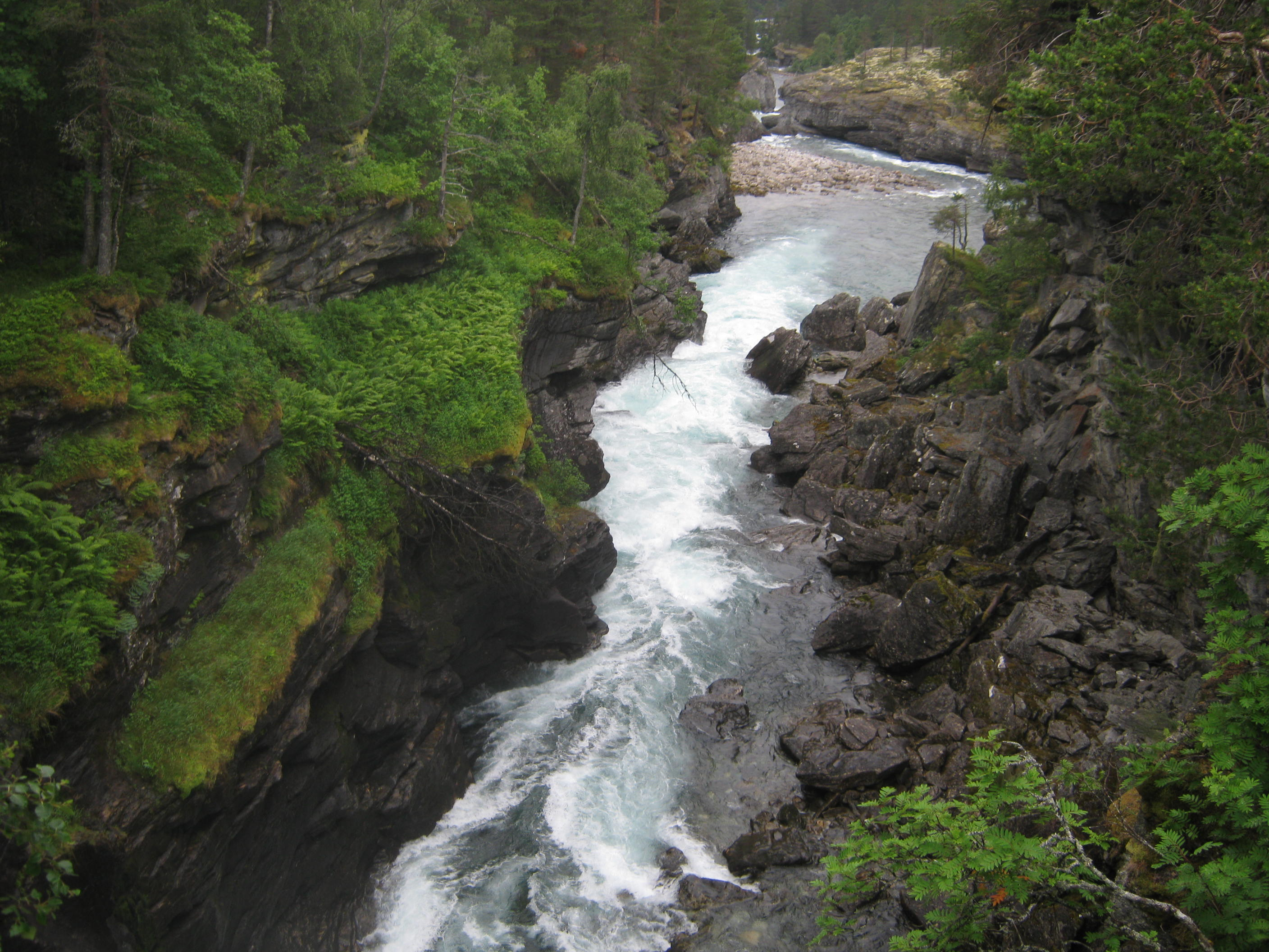 Rauma River, Slettafoss